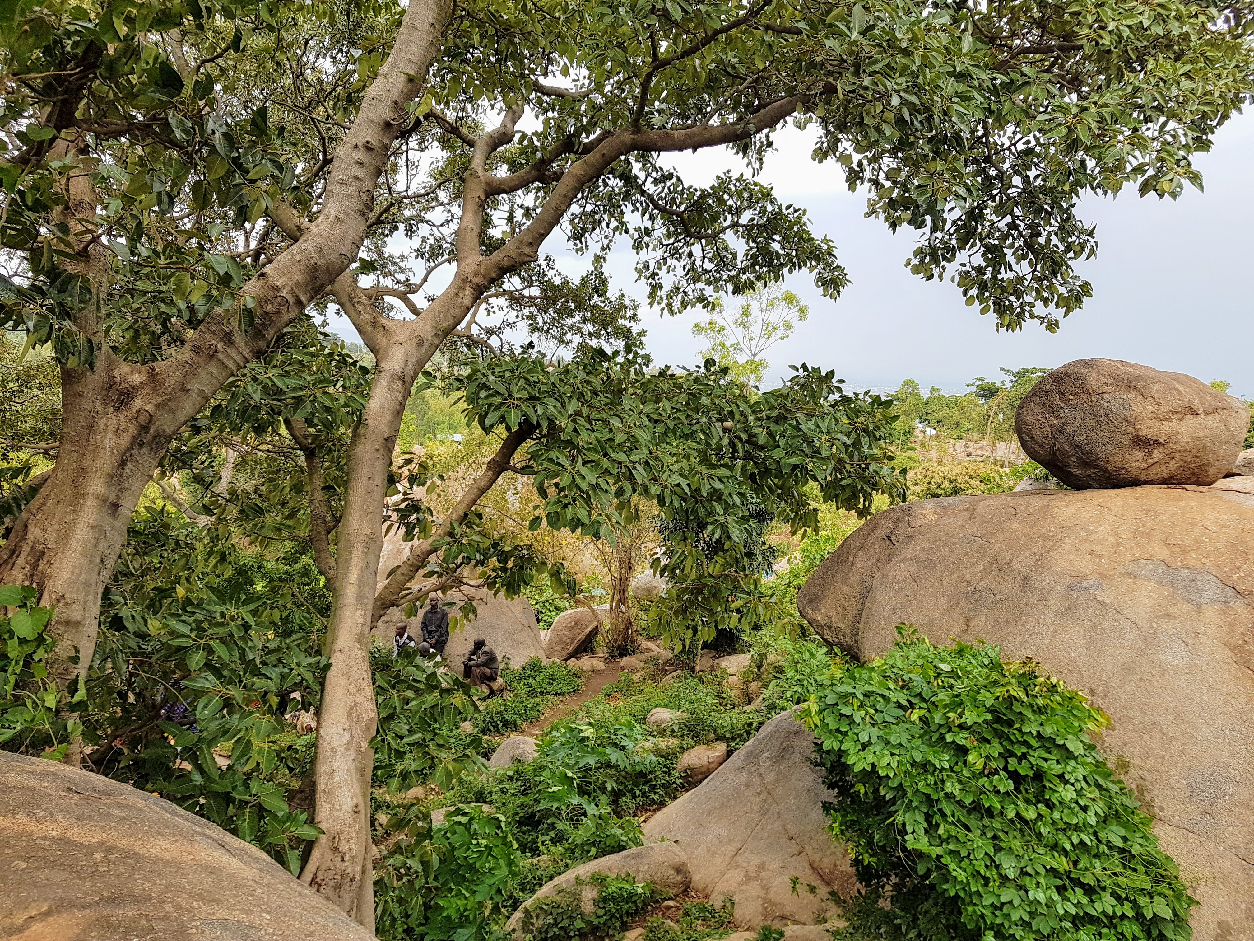 People come to these rocks for worship This is an image with the theme "Africa on the Move or Transport" from: Kenya